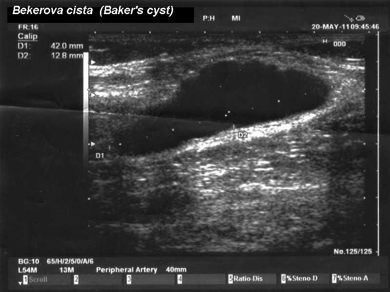 Longitudinal ultrasonographic image of a Baker cyst (42,0 x 12,8 mm)